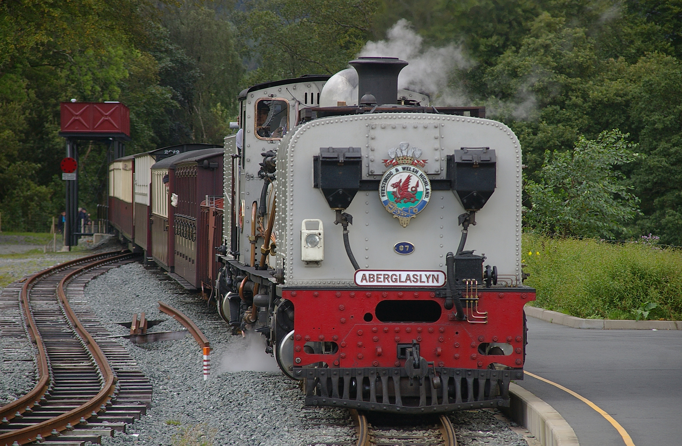 Welsh Highland Railway #87 arrives at Beddgelert, headed to Hafod-y-llyn.